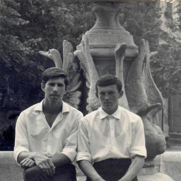 fountain on Market Square. 1950th.